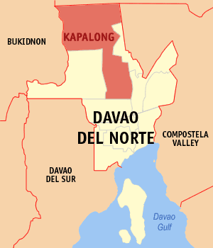 Map of the Davao del Norte showing the location of Kapalong